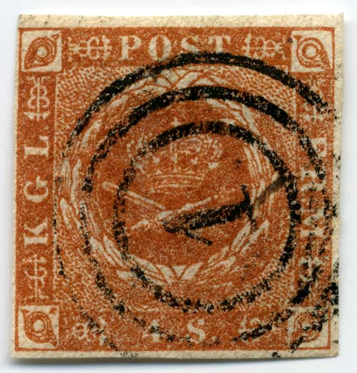 Scan of Denmark 4-skilling stamp of 1854